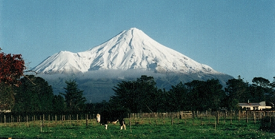 Picture of Mount Egmont taken from Glanville Road, Stratford, Taranaki, New Zealand. Taken by me with a 35mm camera. I release it into the public domain.